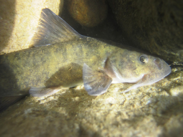 Chile, Laguna La Invernada, cuenca río Maule (339249.40 m E - 6045064.47 m S - Huso 19) 1.300 m.s.n.m.